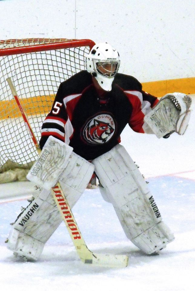 These images of WOAA action are taken by Devan Mighton.